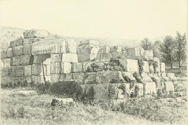 Sketch of el-Kusr (possibly a tomb) outside the village of Tayasir (Cropped)